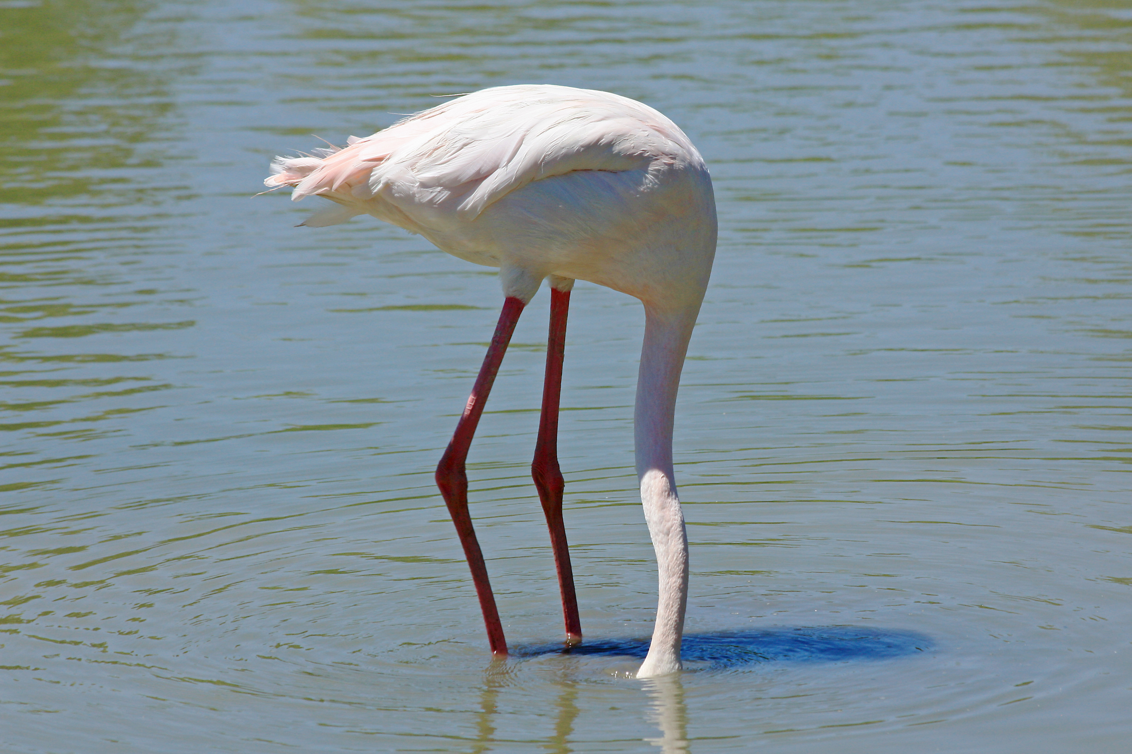 Greater Flamingo Phoenicopterus roseus in the Camargue, France